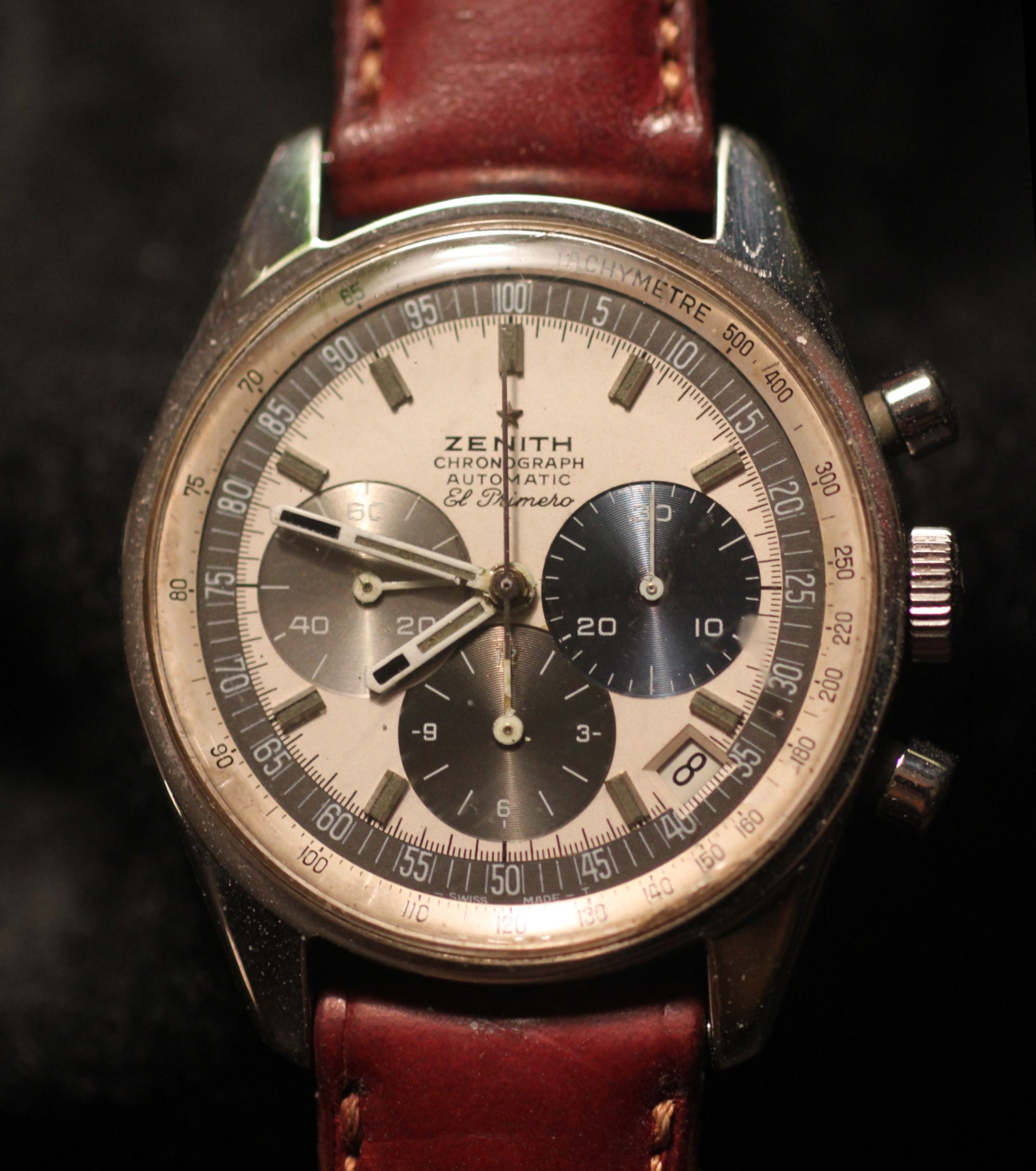 Zenith El Primero